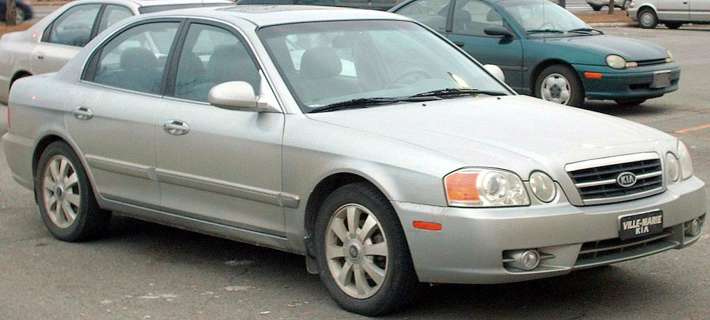 2004-2006 Kia Magentis photographed in Montreal, Quebec, Canada.